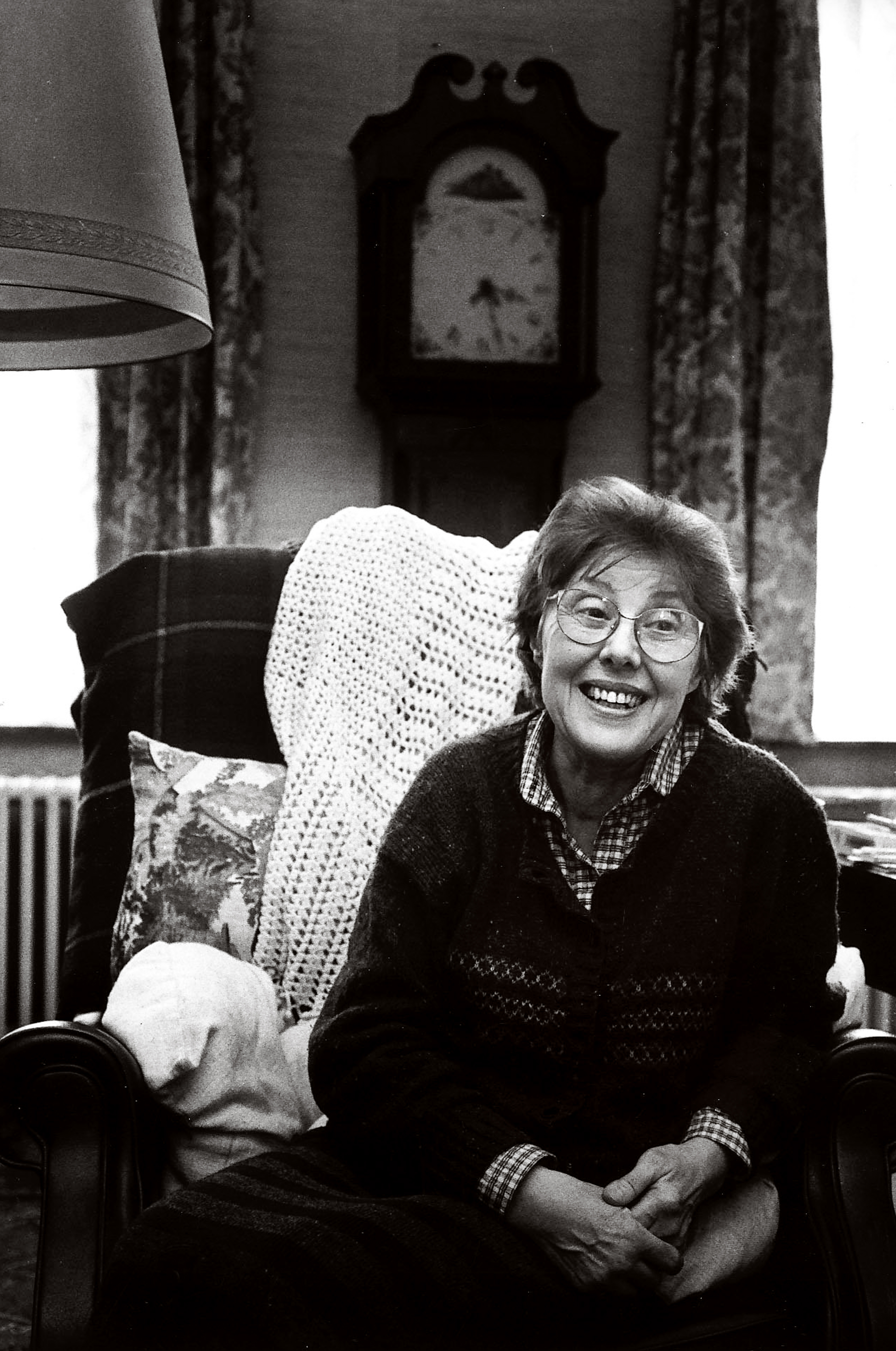 Christine D'haen, Belgium poet at her home in Bruges, October 1990.